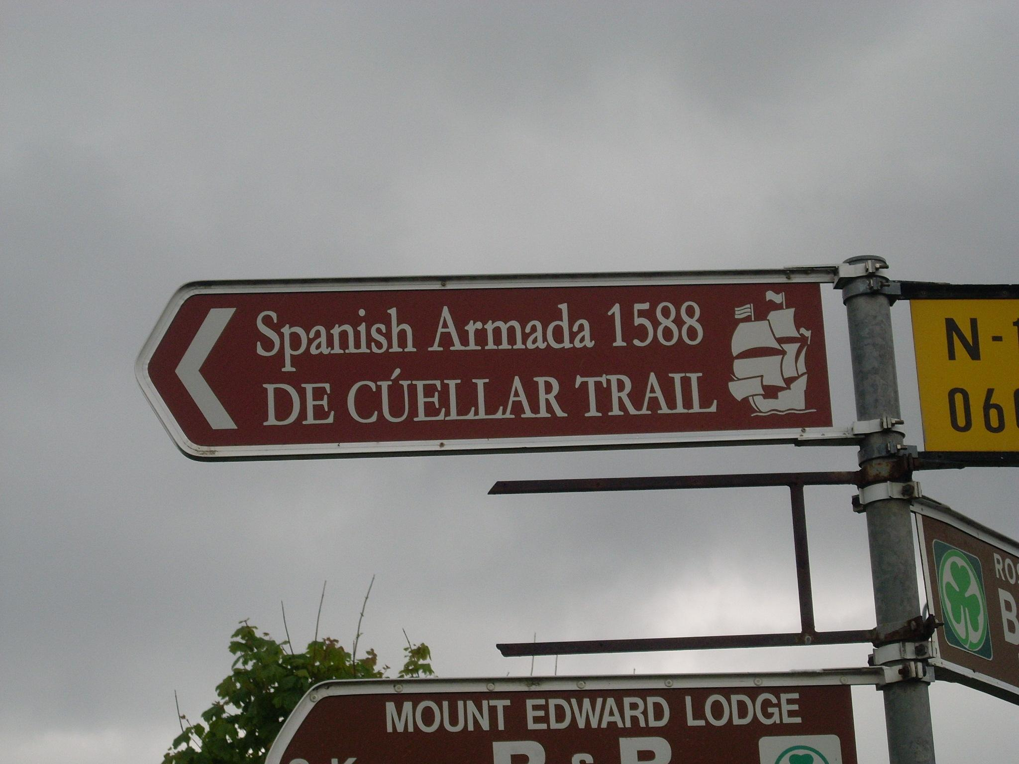 Signpost at Streedagh Beach for De Cuellar trail.